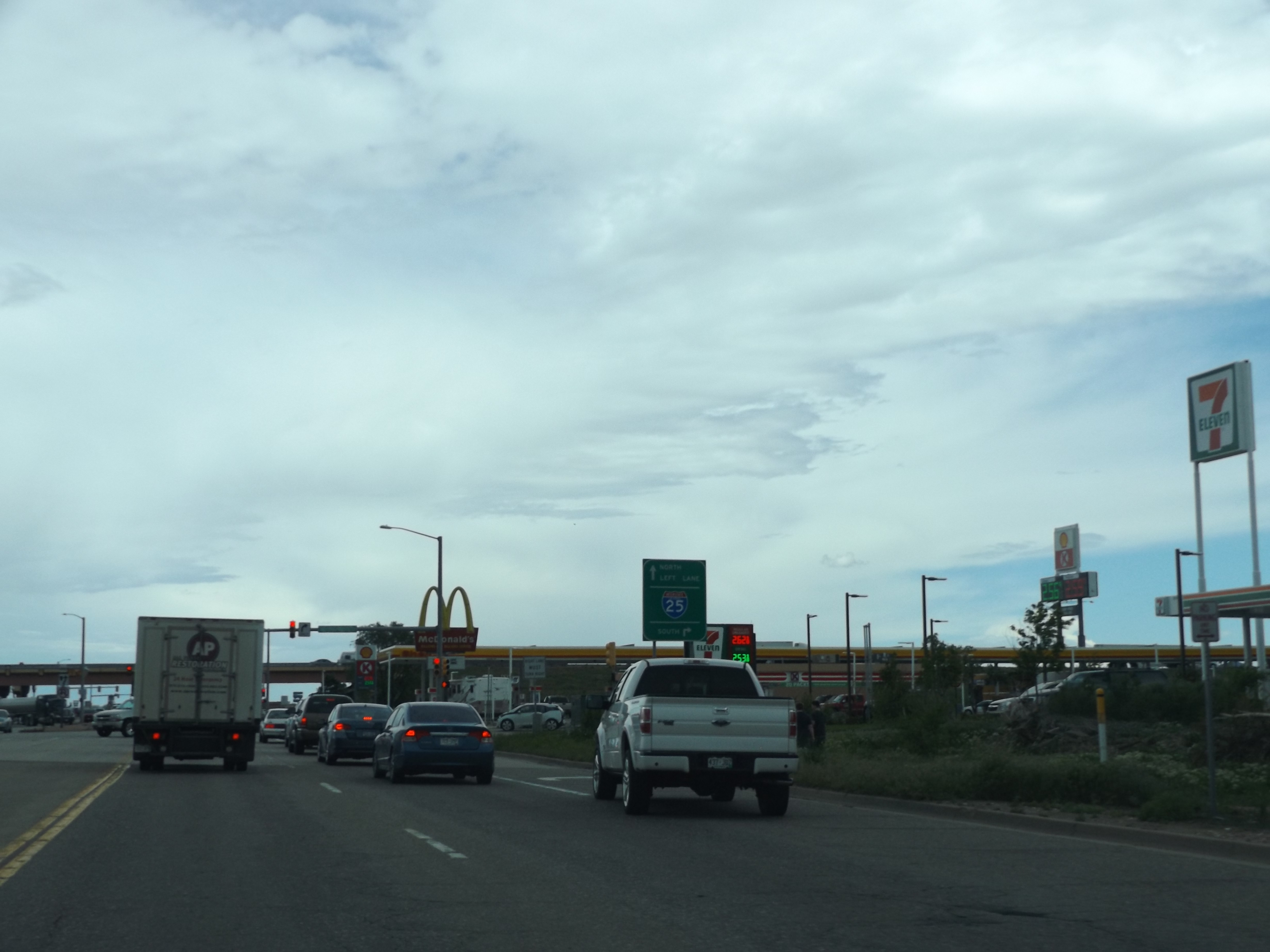 Colorado State Highway 119 at its northern terminus at Interstate 25